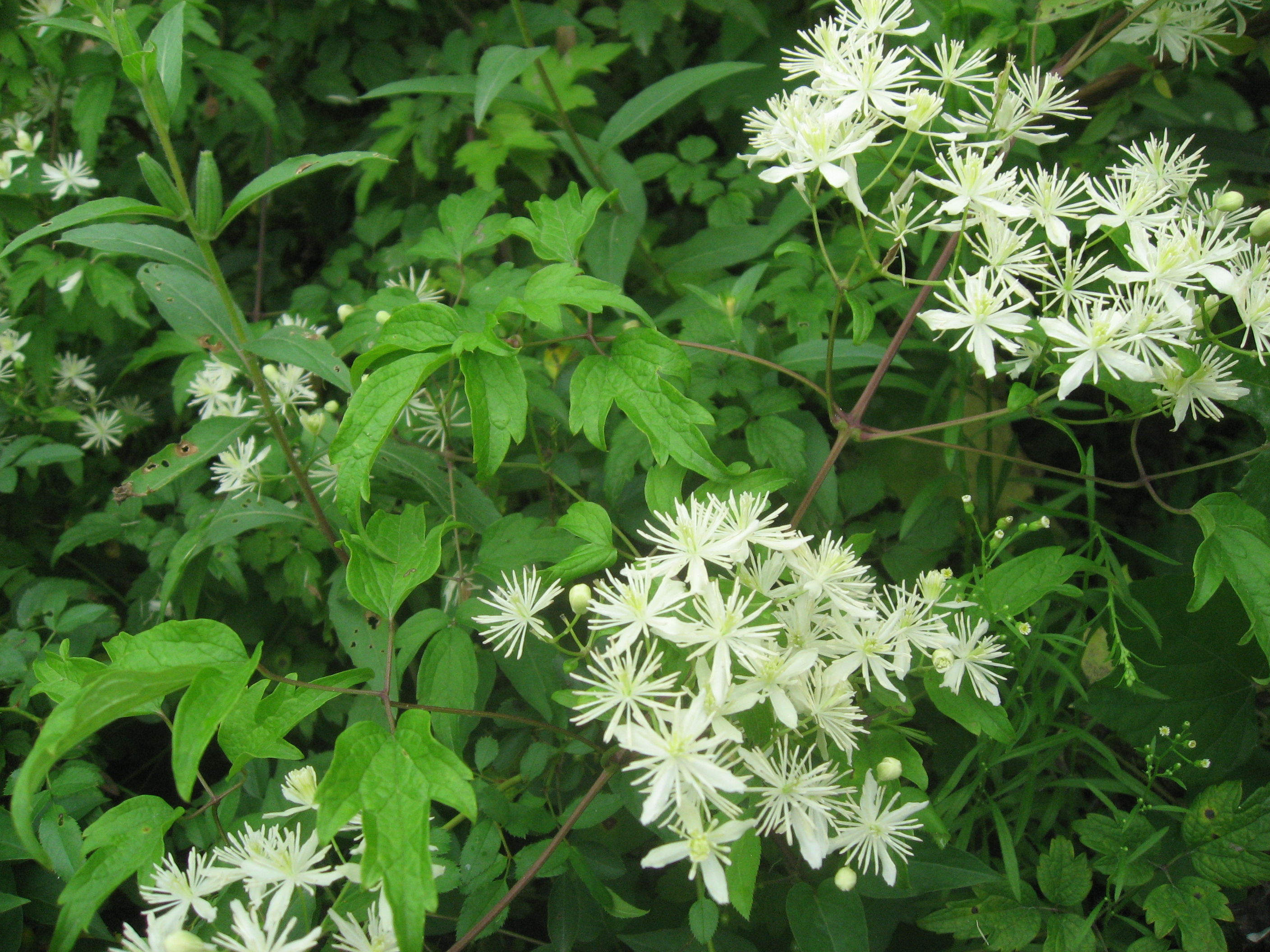 Clematis apiifolia, Aizu area, Fukushima pref., Japan